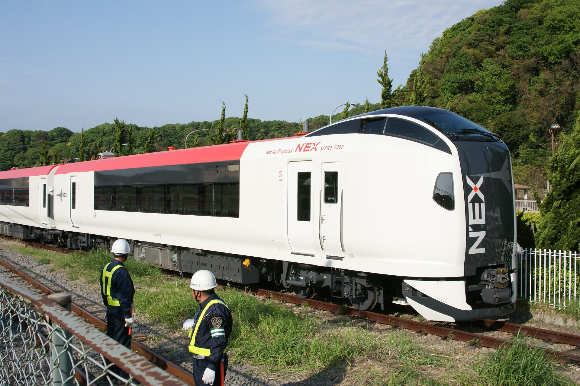 JR East Narita Express E259 series 6-car unit NE002 next to Jimmuji Station, Zushi, on delivery from Tokyu Car Corporation